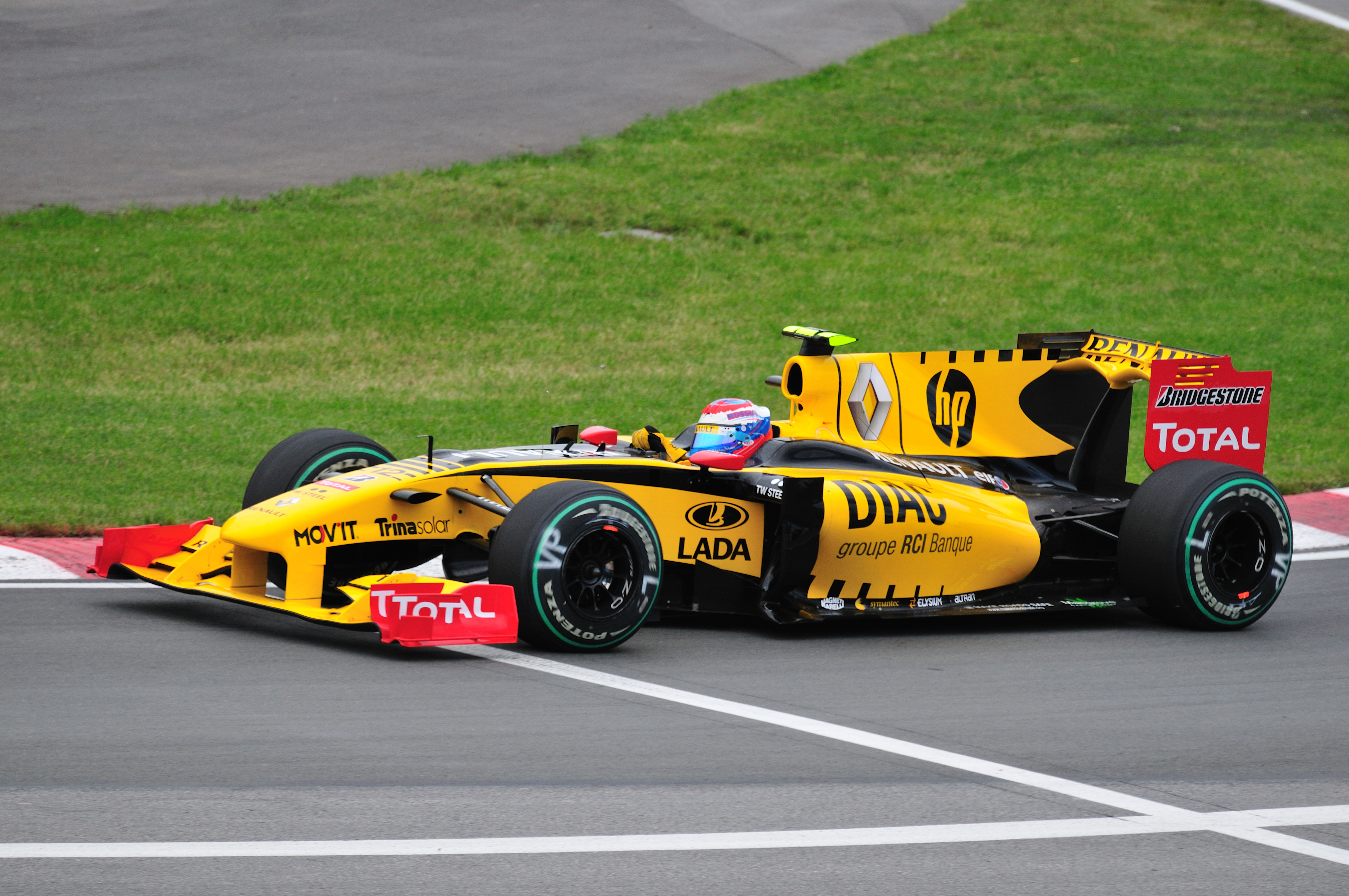 Renault driver Vitaly Petrov of Russia in the Senna corner (2010 Montreal GP)